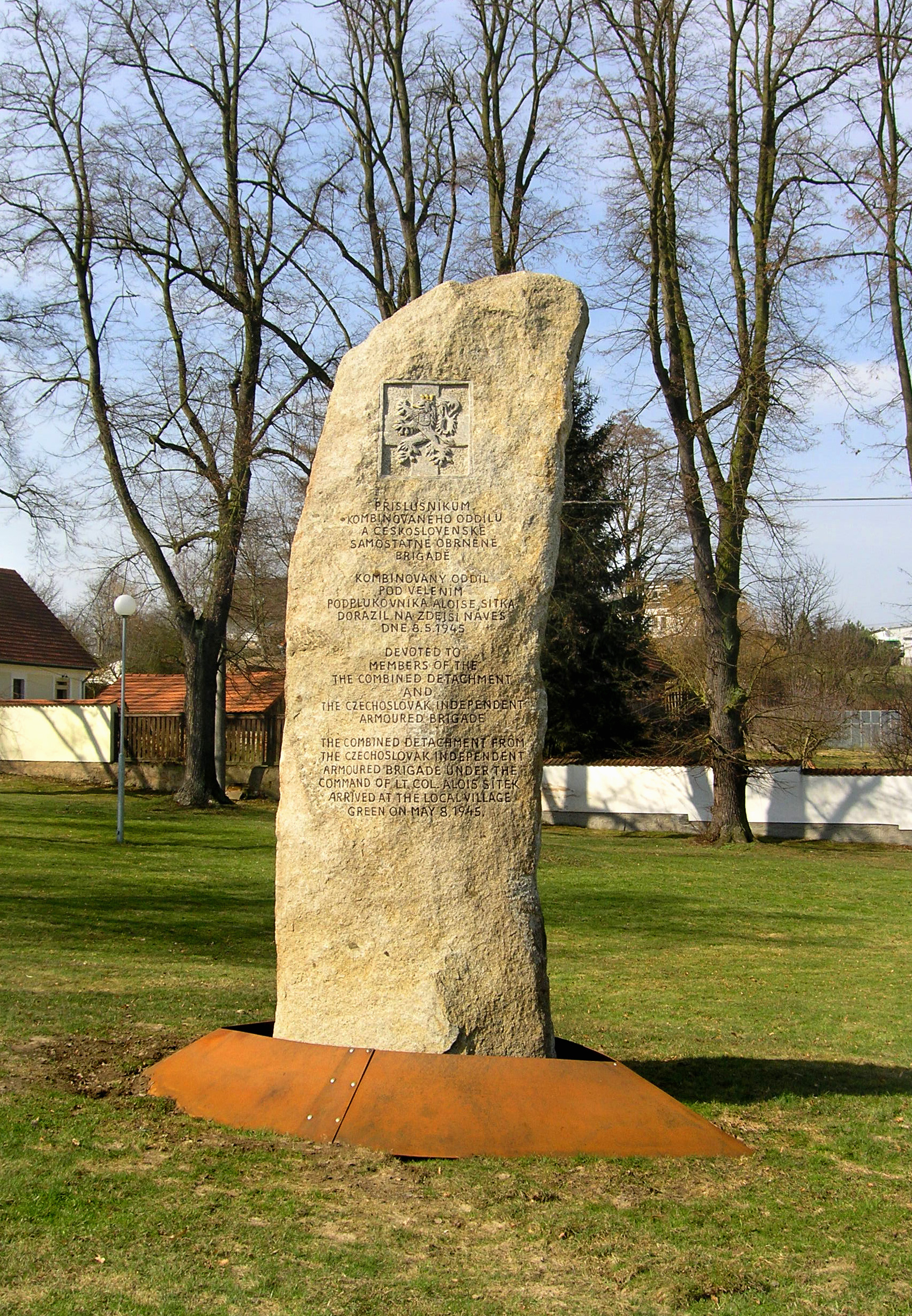 Memorial to members of the combined detachment and the Czechoslovak Independent Armoured Brigade in Kyšice village, Czech Republic